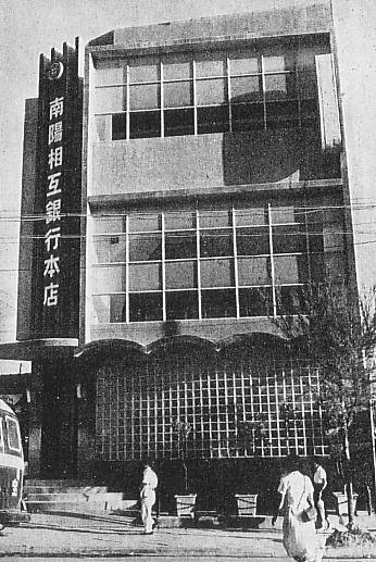 Nanyo Mutual Savings Bank Building circa 1955